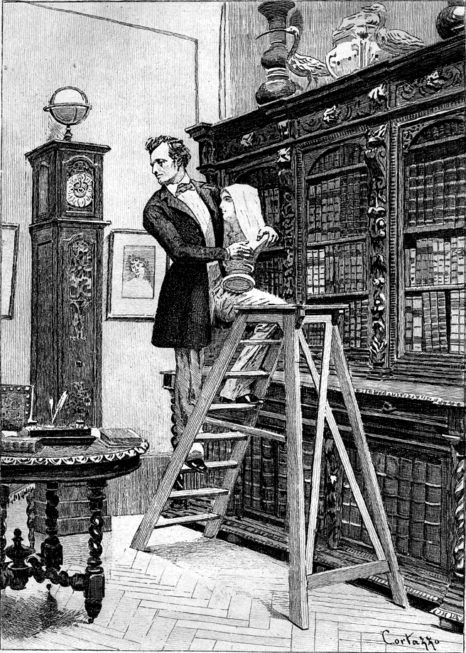 Illustration of Honoré de Balzac's The Deputy from Arcis (1847): The Bust of Madame de L’Estorade.